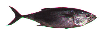 Pacific bluefin tuna (Thunnus orientalis, formerly included in Thunnus thynnus).